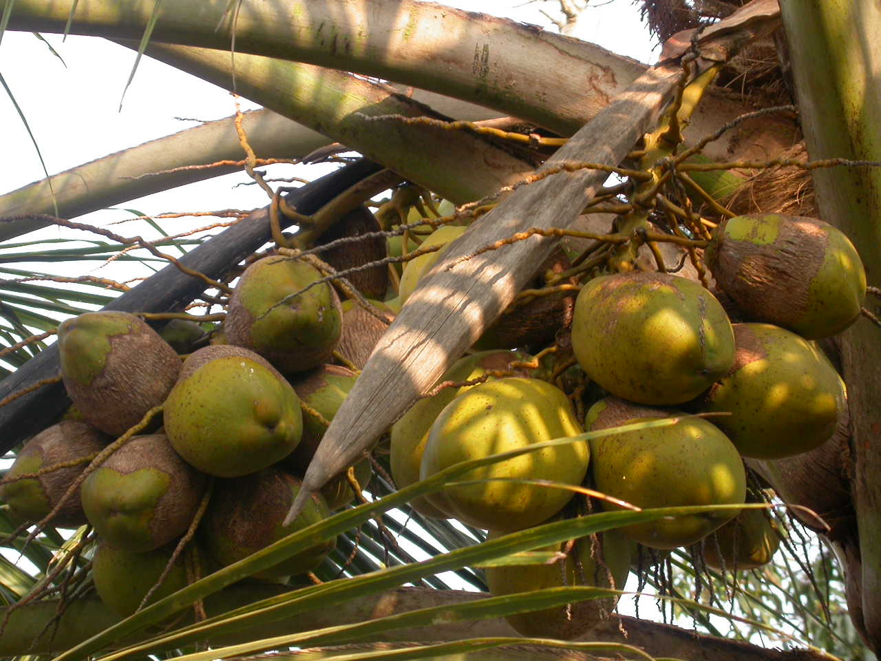 Coconuts affected by mandari disease - a scene from Kannur, Kerala